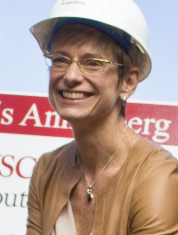 Sylvia Lopez, C.L. Max Nikias, Elizabeth Garrett, Leonard Aube and Ernest J. Wilson III begin the groundbreaking of the new Wallis Annenberg Hall at USC on November 8, 2012. (Rosa Trieu/Neon Tommy)